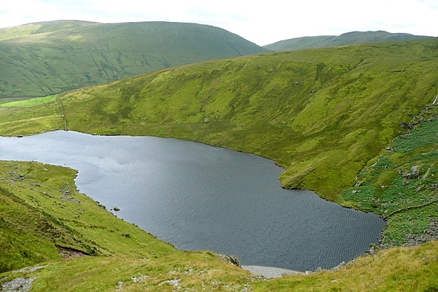 Llyn Lliwbran A classic llyn in a glaciated cwm that dominates this square.